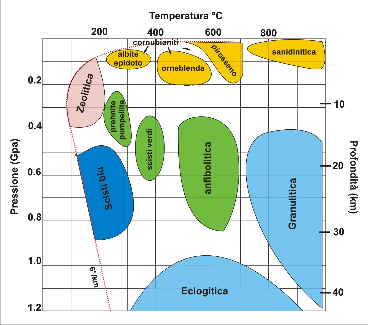 Metamorphic facies in italiano